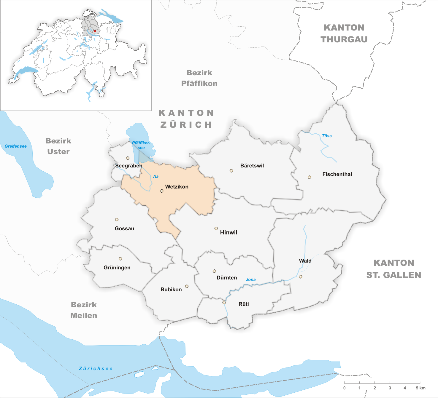 Municipality Wetzikon